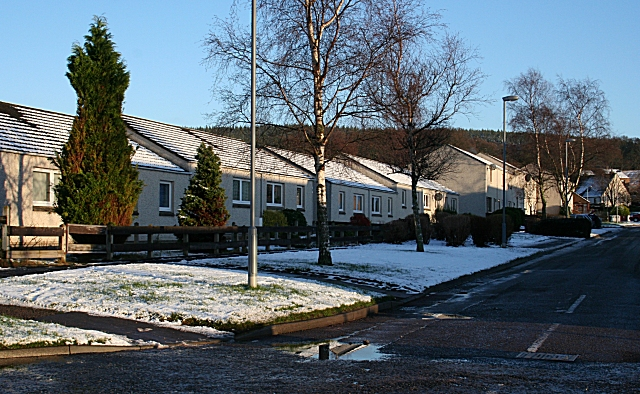 Castlehill The sun is too low to illuminate more than the roofs of the low-rise council housing on the north side of Castlehill Road.